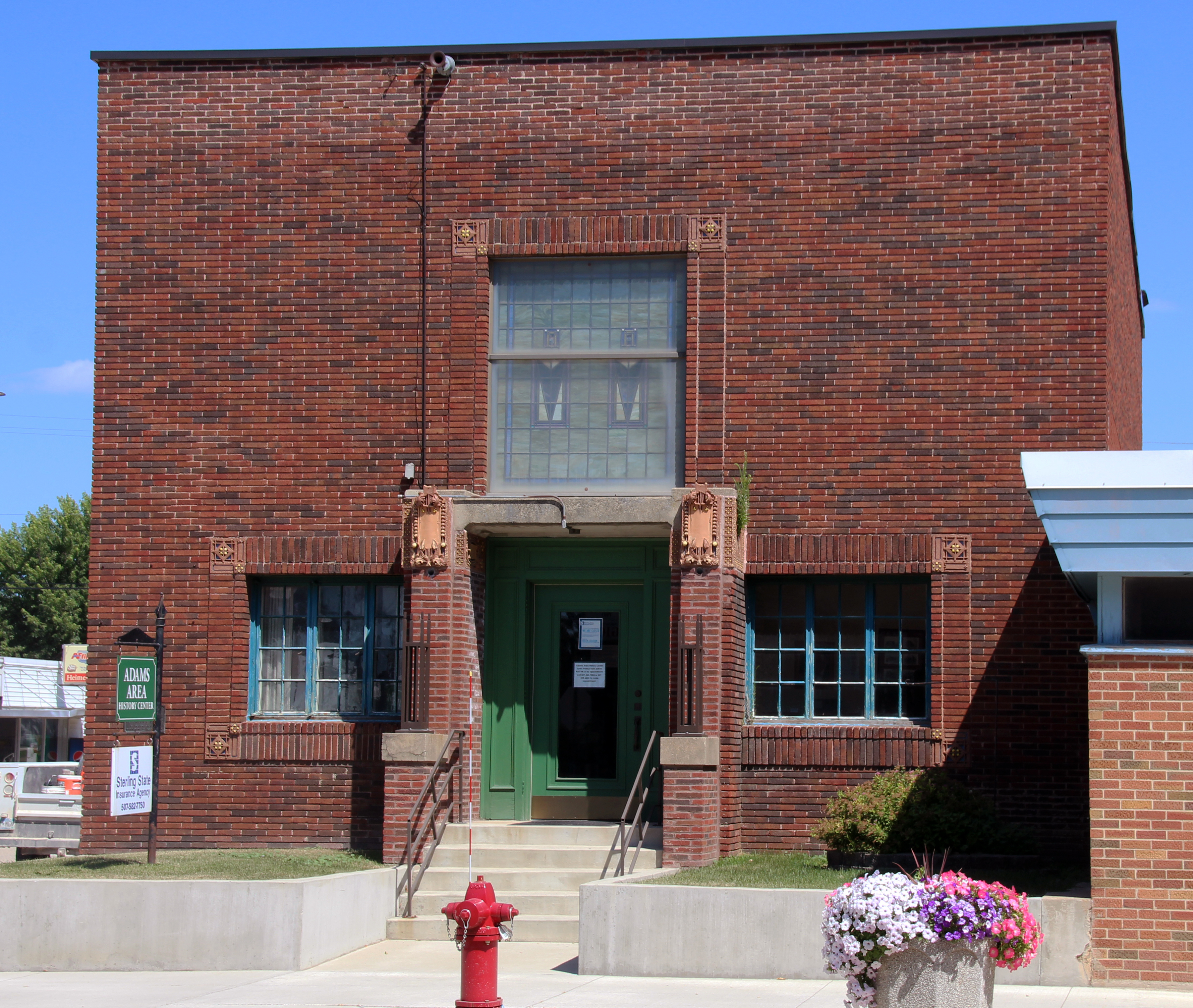 Adams Area History Center housed in the former First National Bank of Adams, Adams, Minnesota.